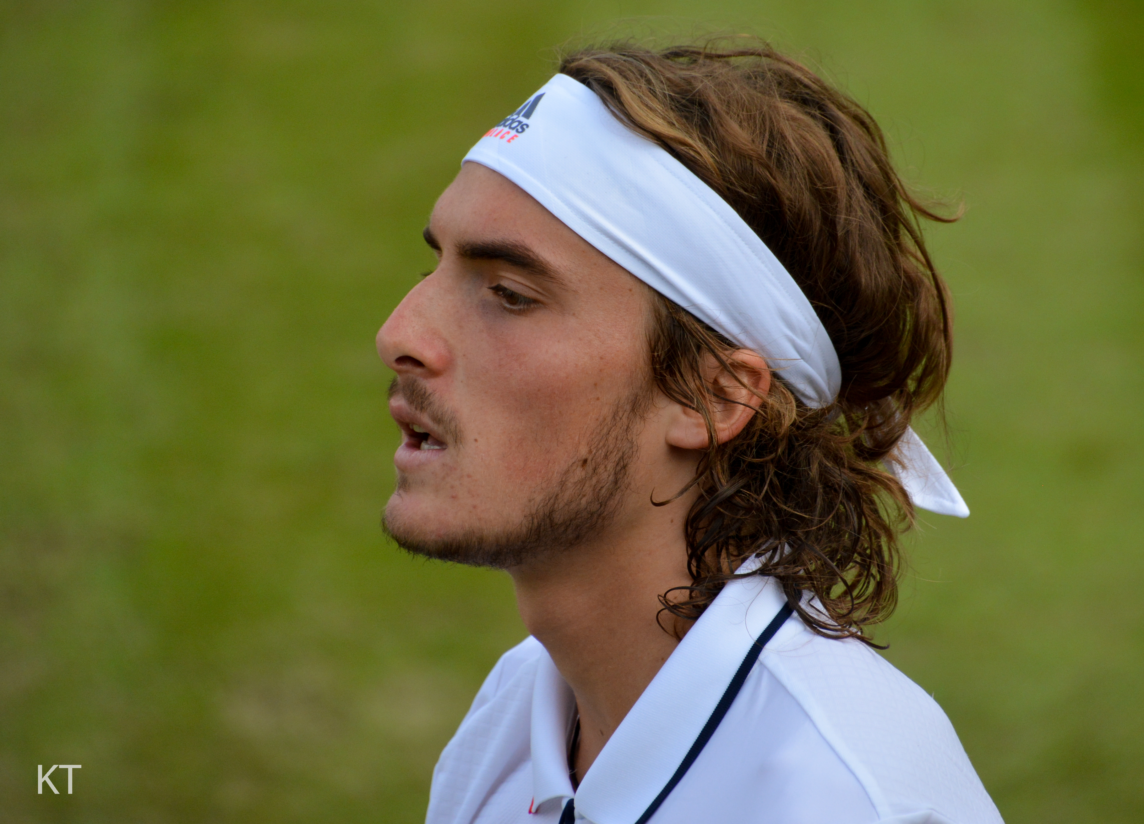 Day 3 of Wimbledon 2018.